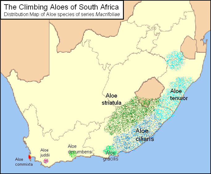 Distribution Map of the Climbing Aloes of South Africa (Series Macrifoliae). Common widespread species are in the east of the country, rare isolated relict species survive in the drier West. Map created using information from common knowledge and public Red Data List of South African species. Aloe tenuior = Aloiampelos tenuior Aloe striatula = Aloiampelos striatula Aloe ciliaris = Aloiampelos ciliaris Aloe gracilis = Aloiampelos gracilis Aloe decumbens = Aloiampelos decumbens Aloe juddii = Aloiampelos juddii Aloe commixta = Aloiampelos commixta